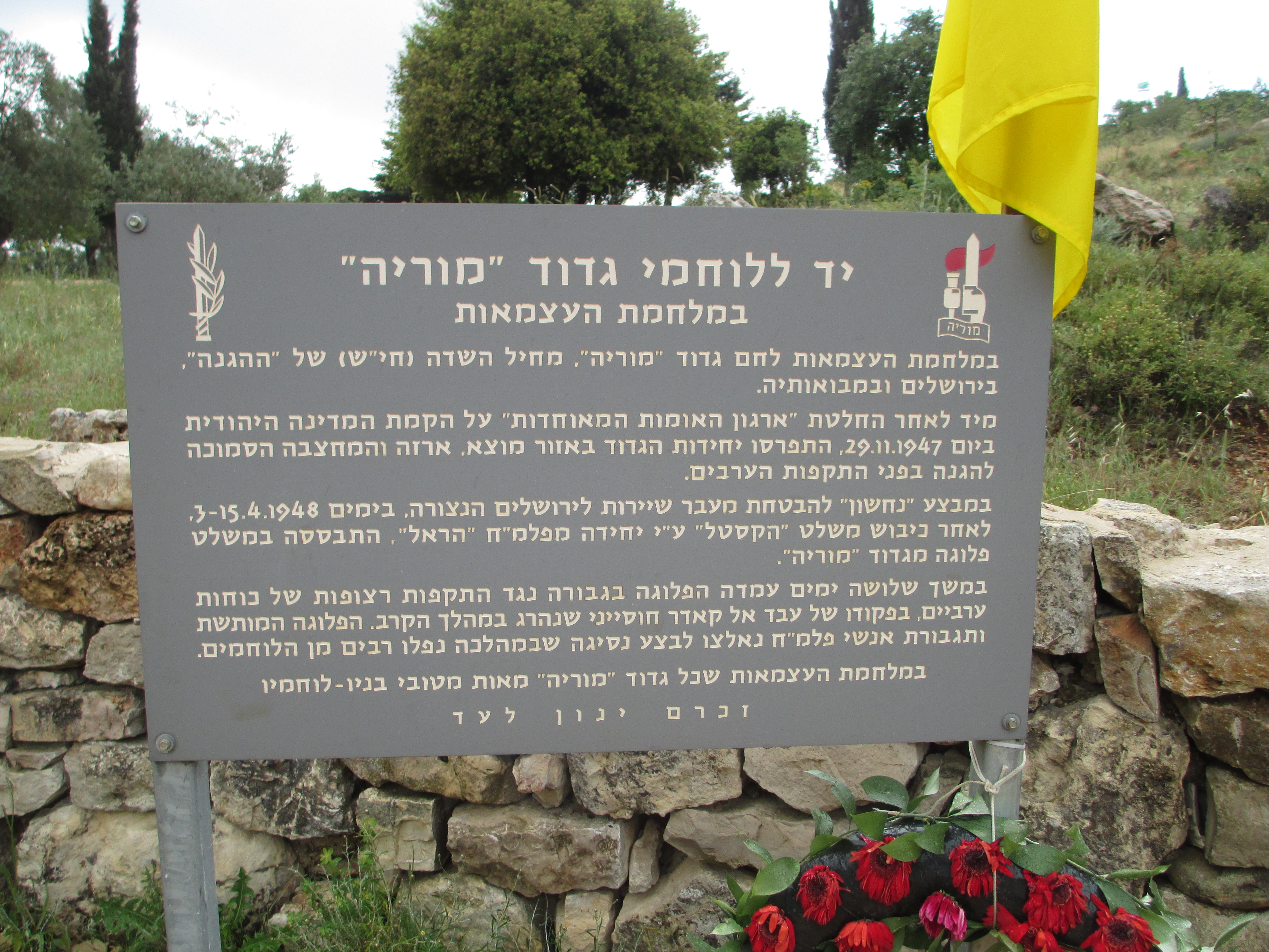 castel national park שלט זיכרון לגדוד מוריה בגן לאומי קסטל